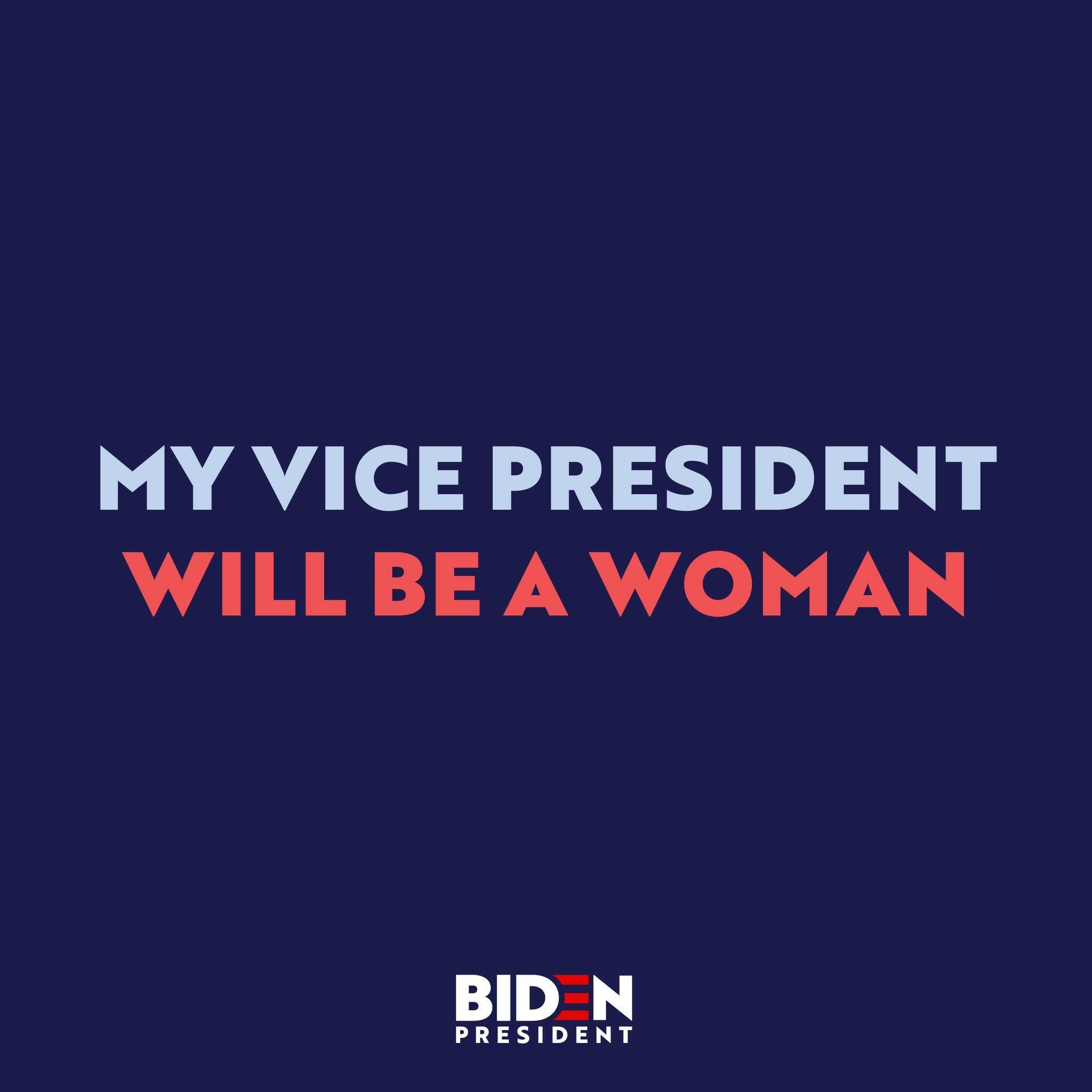 My Vice President Will Be A Woman